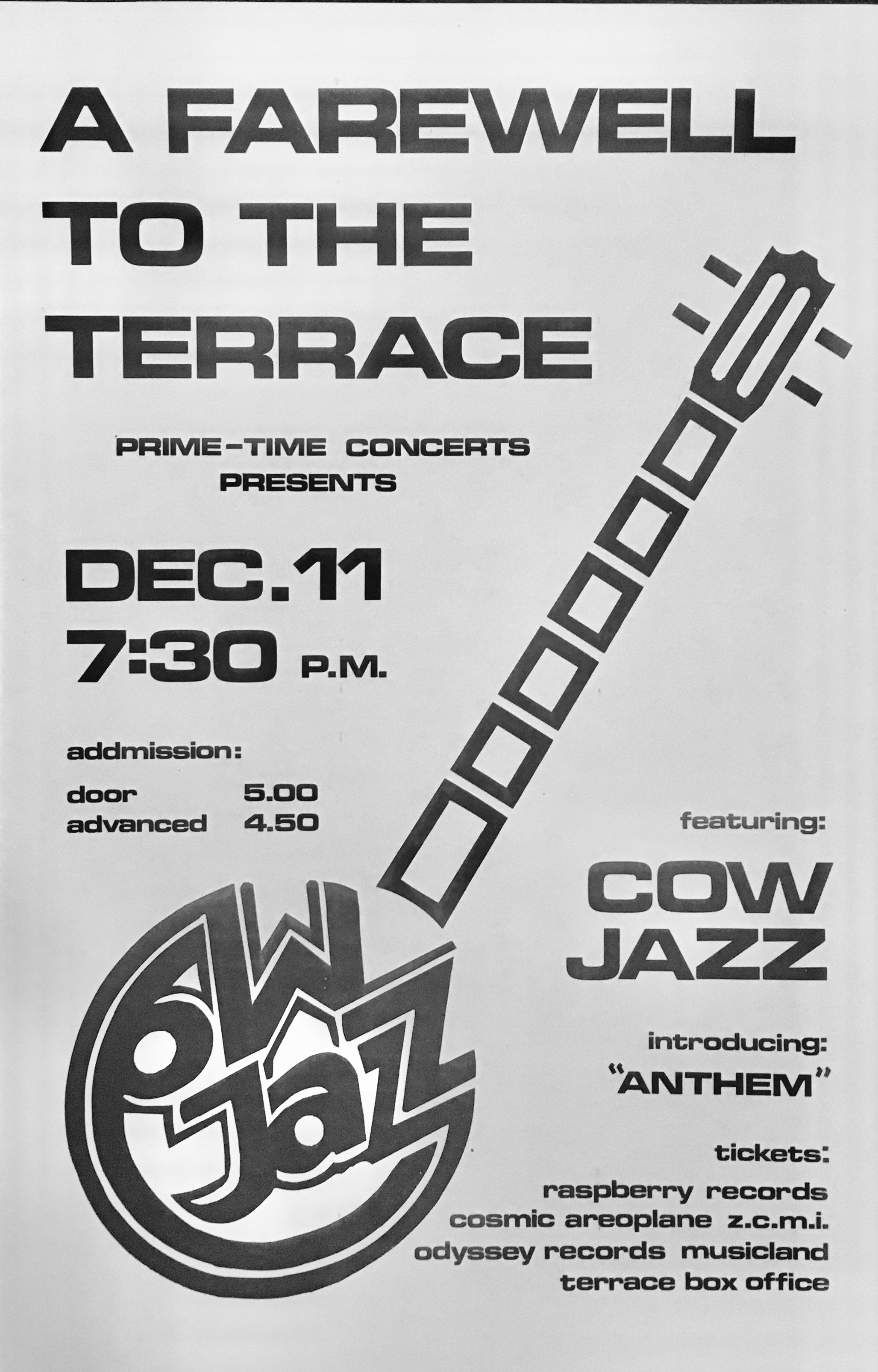 Promotional Poster for the Last Terrace Concert created by Peter duP Emerson, Salt Lake City architect.